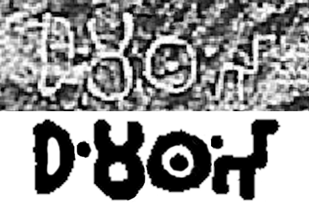 Dhamma thambaa inscription